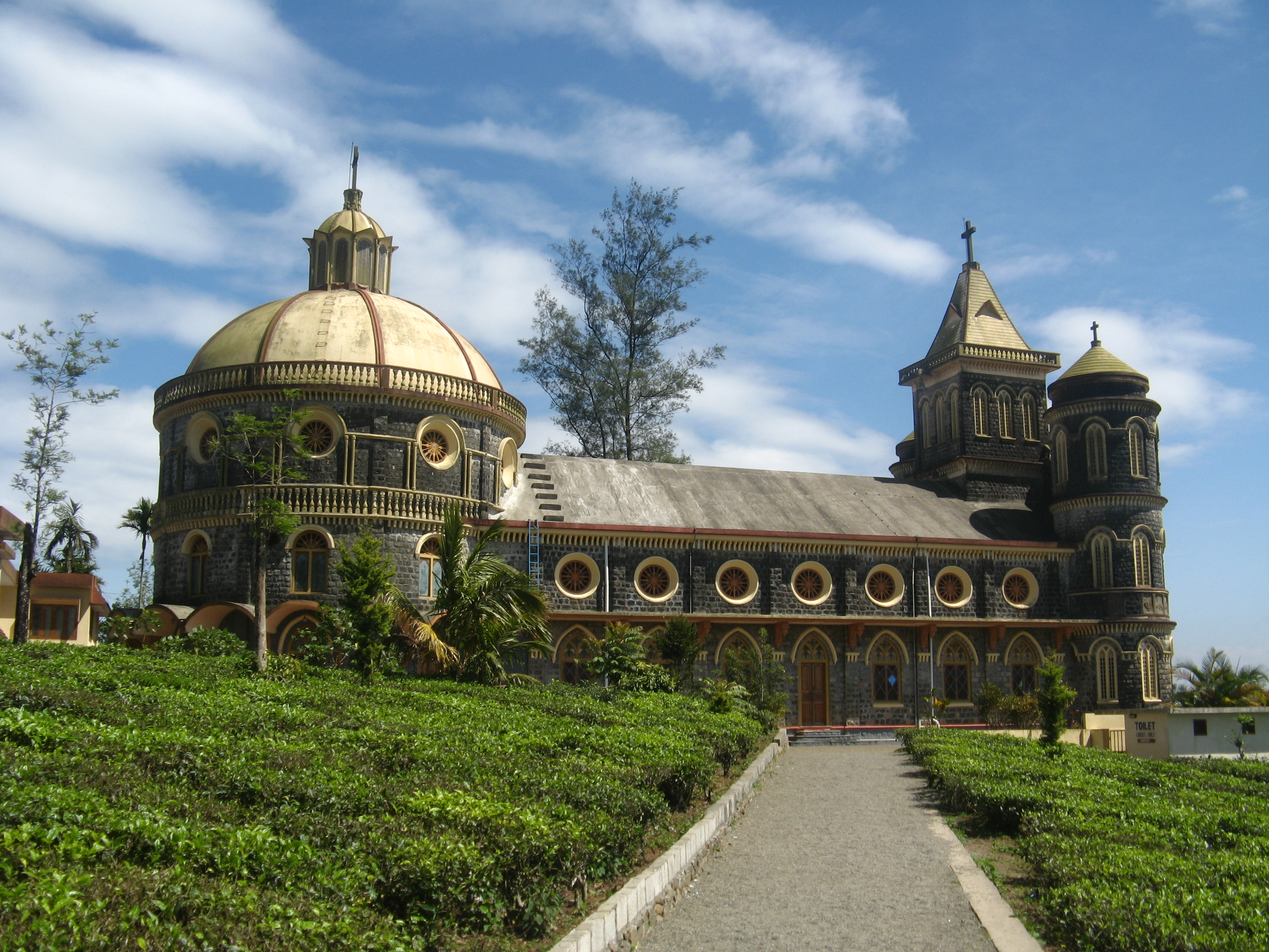 St. Mary's Church, Pattumala